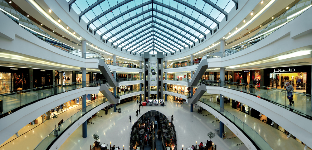 Inside view of City Mall, Amman, Jordan